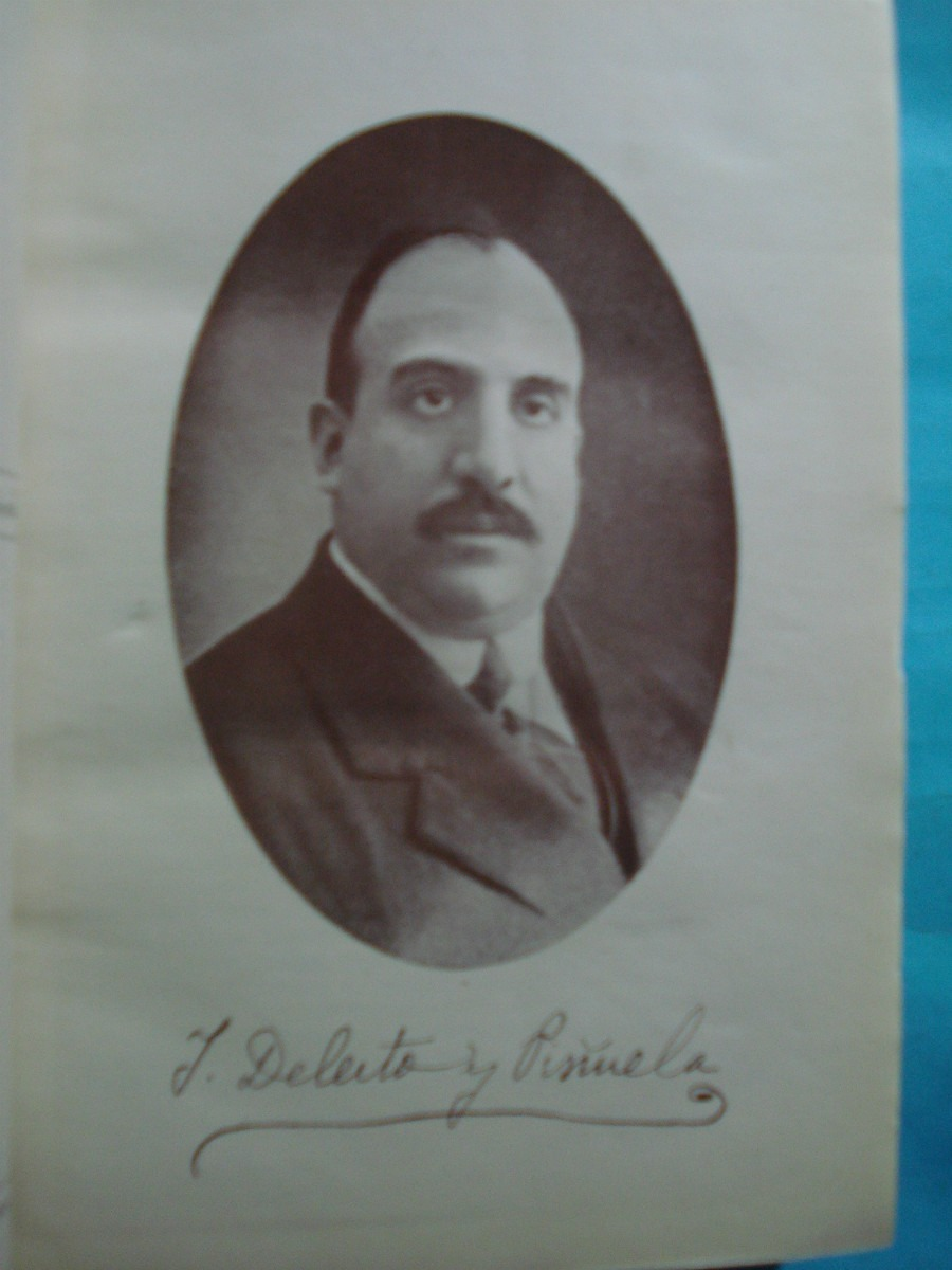 Portrait and signature of the historian José Deleito and Piñuela, in the frontispiece of his book sense of sadness in the contemporary literature. Barcelona, Editorial Minerva.1922.